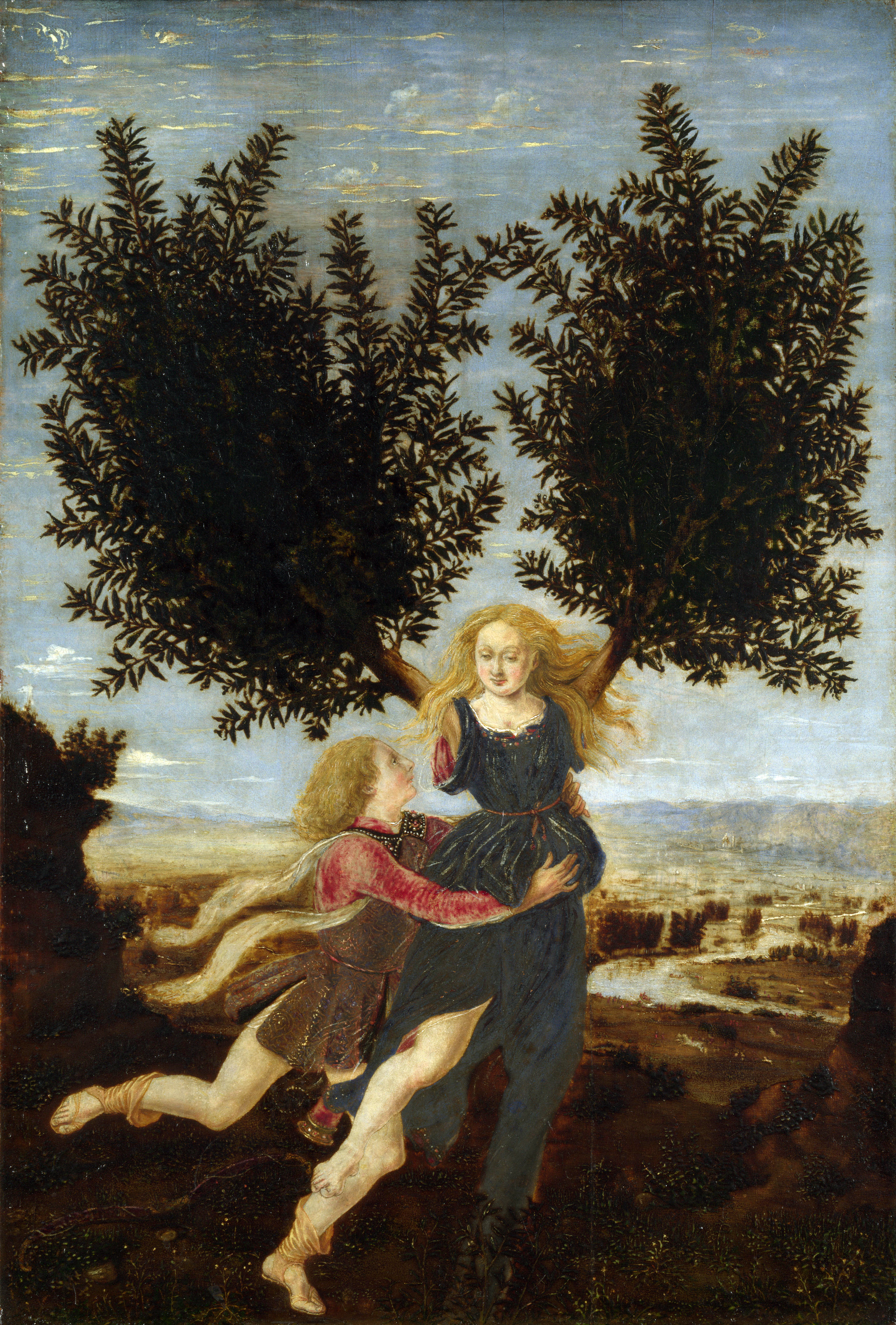 The nymph Daphne prayed for rescue when she was pursued by the god Apollo. When he touched her, she was turned into a laurel. This is a story from Ovid's 'Metamorphoses', Such pagan fables were popular subjects to decorate furniture in Florence.The landscape, like that in the altarpiece of the 'Martyrdom of Saint Sebastian', is based on the Arno valley near Florence, and is likely to date from the same period.